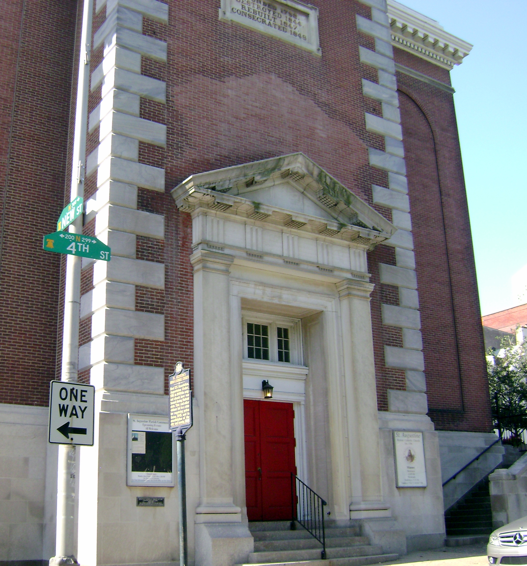 St. Augustine Church, Philadelphia, 4th and Vine Streets